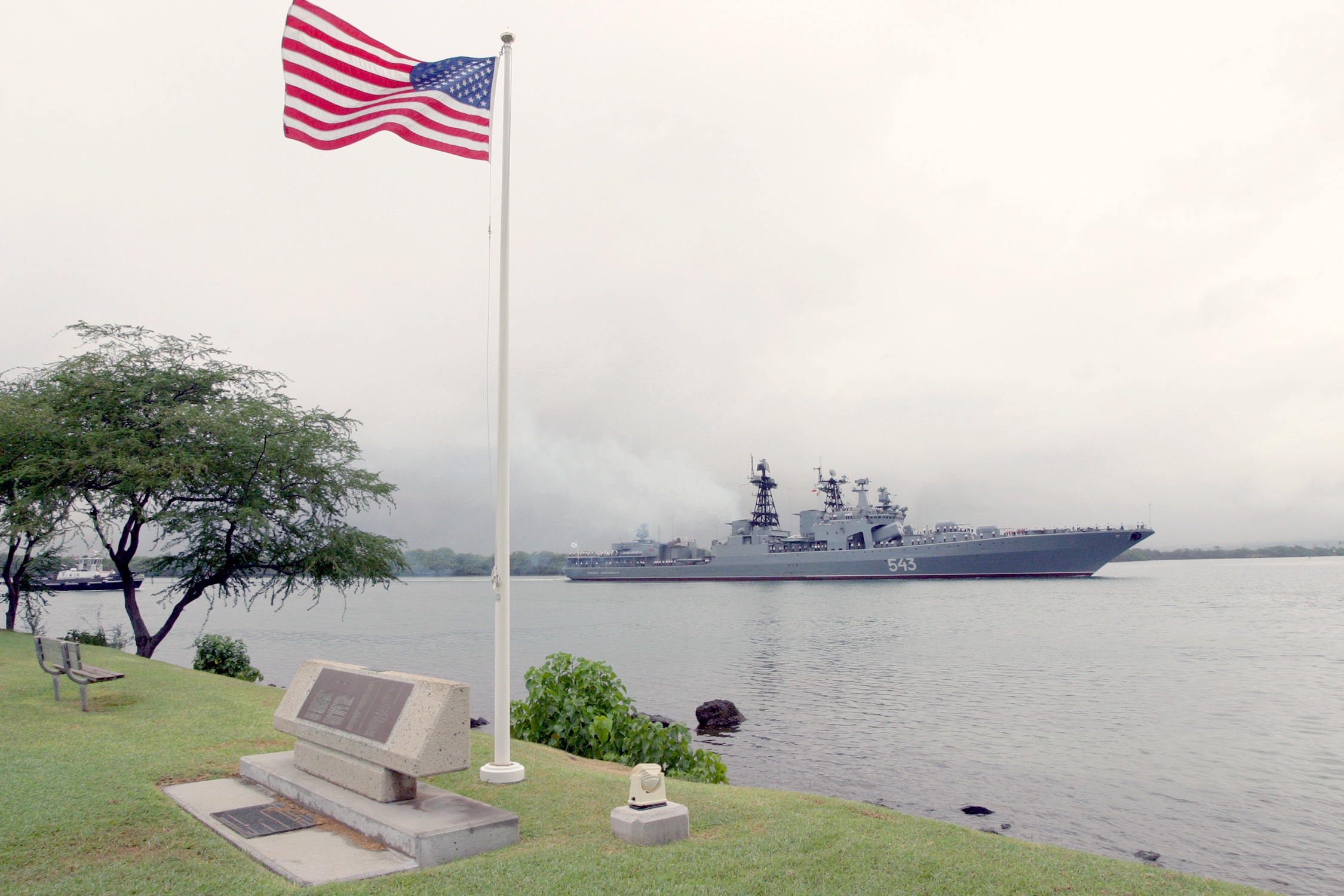 Pearl Harbor, Hawaii (Oct. 24, 2003) -- The Russian Federation Navy Udaloy Class destroyer Marshal Shaposhnikov (DDG 543) passes the USS Nevada Memorial while transiting the channel into Pearl Harbor for a five-day port visit. Marshal Shaposhnikov was later joined by the Russian Dubna Class Light Oiler Pechenga (AOL) and both ships are in Pearl Harbor for a friendship visit, reciprocating a recent port call to Vladivostok, Russia made by San Diego-based guided missile destroyer USS Lassen (DDG 82) and 7th fleet-based dock landing ship, USS Fort McHenry (LSD 43). The Russian Federation Navy last visited Pearl Harbor in 1995 while participating in the combined maritime disaster relief exercise, Cooperation From the Sea. U. S. Navy photo by Photographer’s Mate 1st Class William R. Goodwin. (RELEASED)